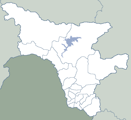 Map of Amur oblast in Russia